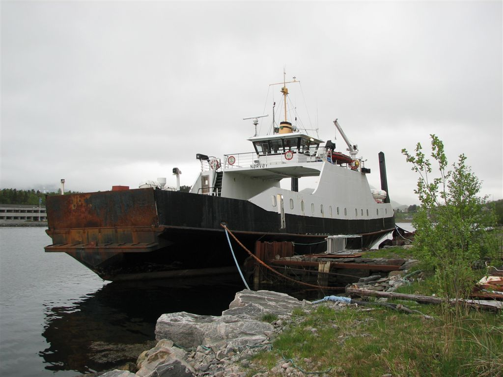 The local ferry M/F "Nørvøy" in Layup in Hjørungavåg.